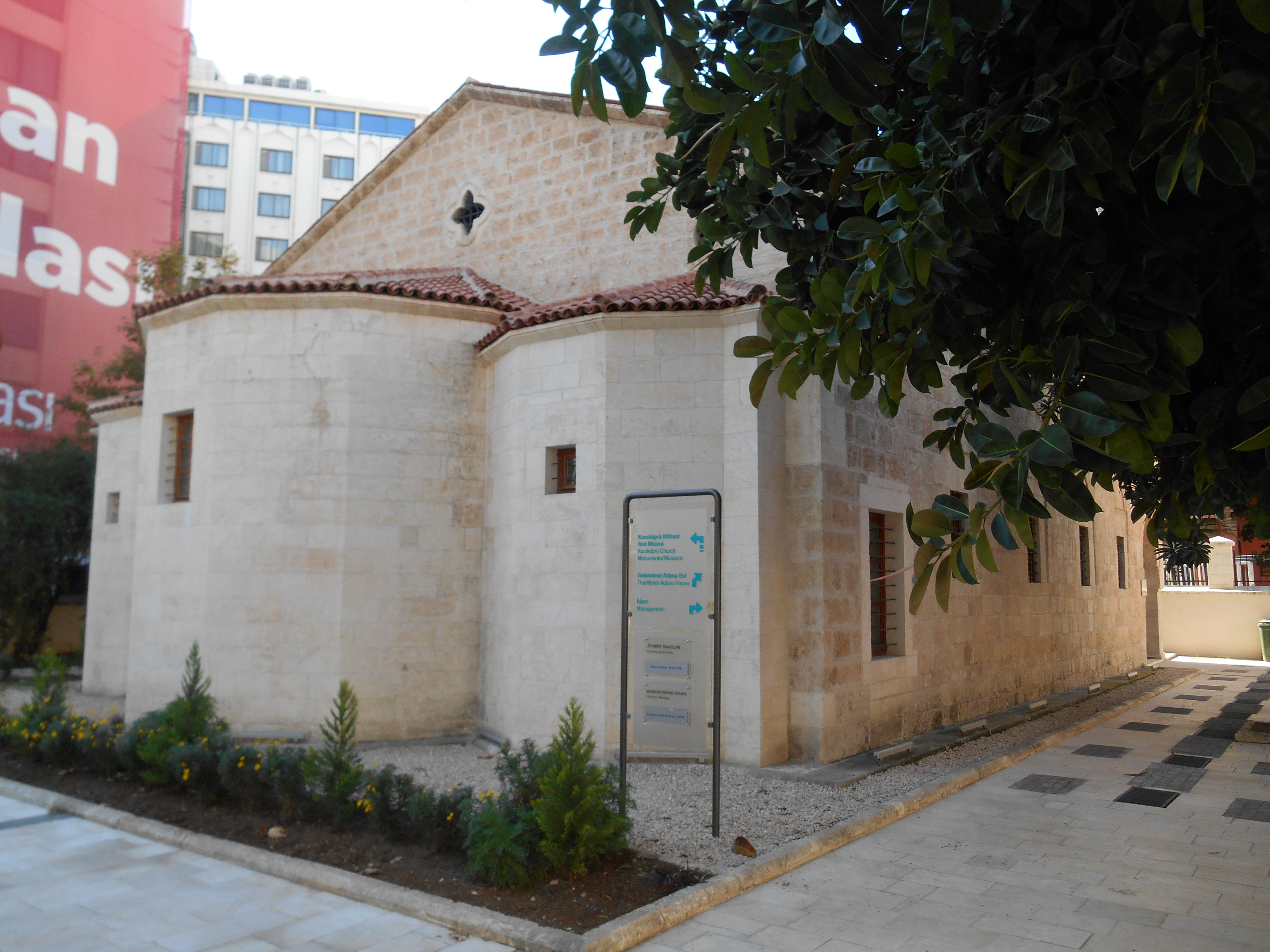 View from the Church garden